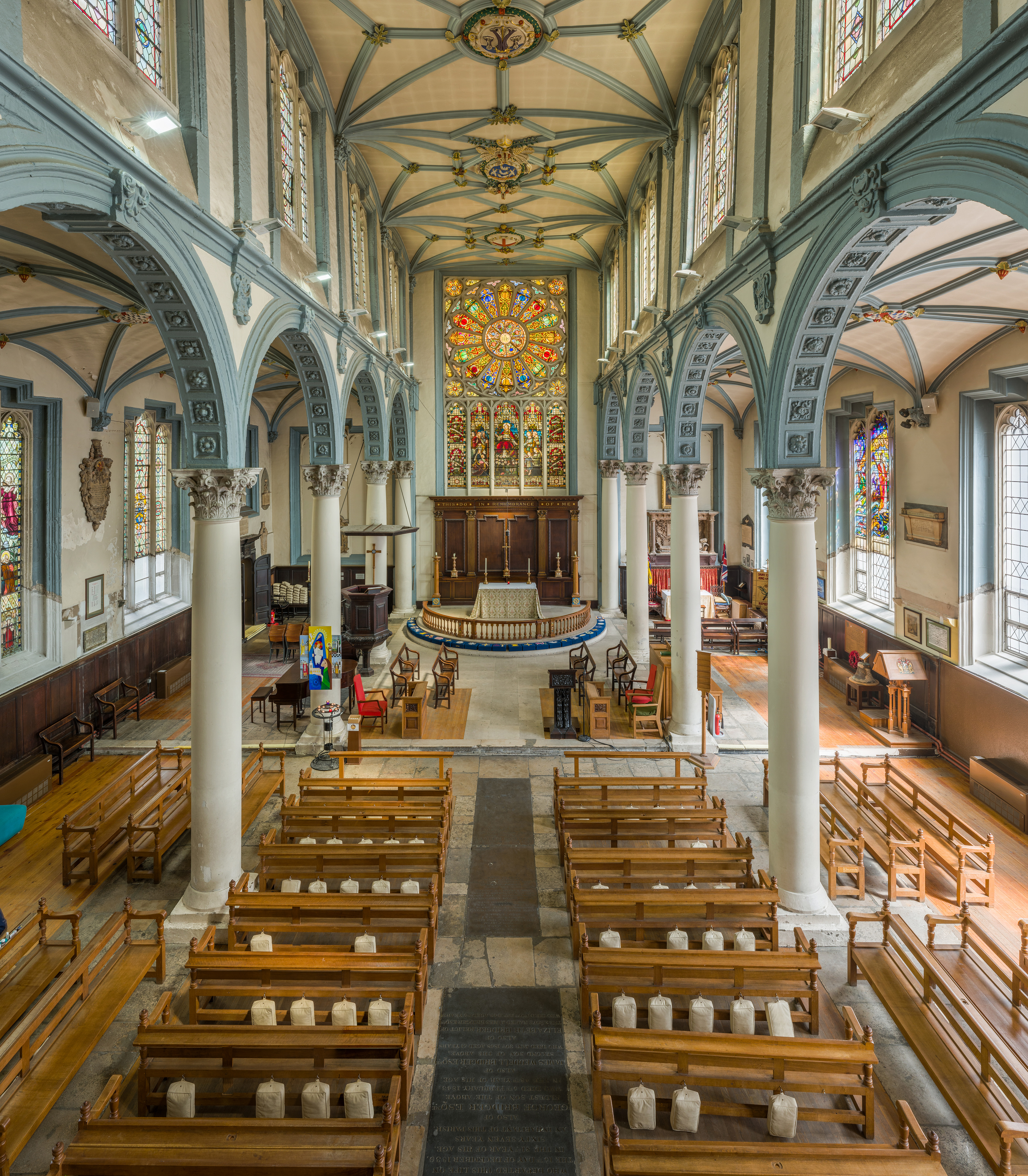 Inside St Katharine Cree guild church, Leadenhall Street, London, looking east from the organ loft at the west end